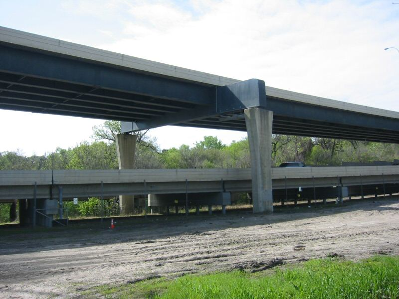 Two different Girder bridges in Minneapolis, Minnesota on Interstate 394. The top bridge is a plate girder bridge, while the bottom bridge uses precast, prestressed concrete I-beams set atop concrete caps on piles.